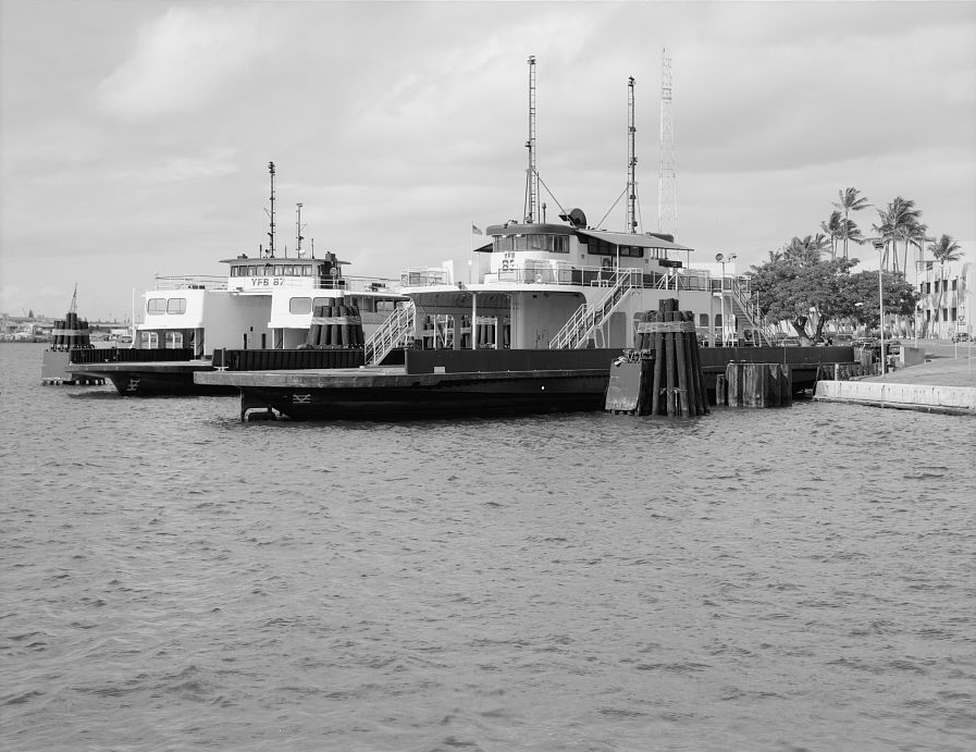 Oblique view of one end and side from harbor - U.S. Naval Base, Pearl Harbor, Delaware Valley, Docked off Hornet Avenue, Pearl City, Honolulu County, HI